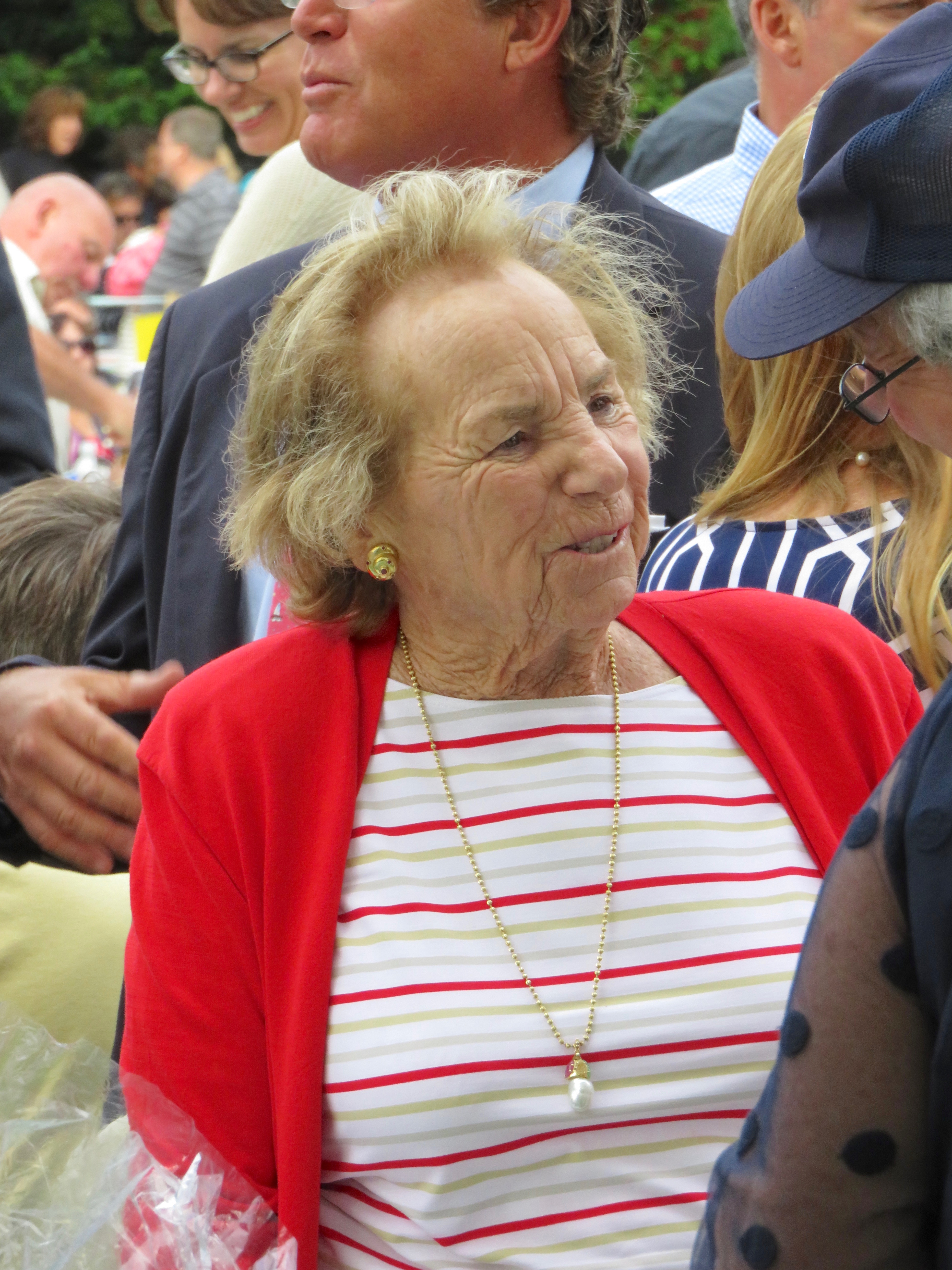 Ethel Kennedy, at the Boston "Pops By The Sea" concert, Hyannis, MA, August 2015. Photo by Dave Doolittle.